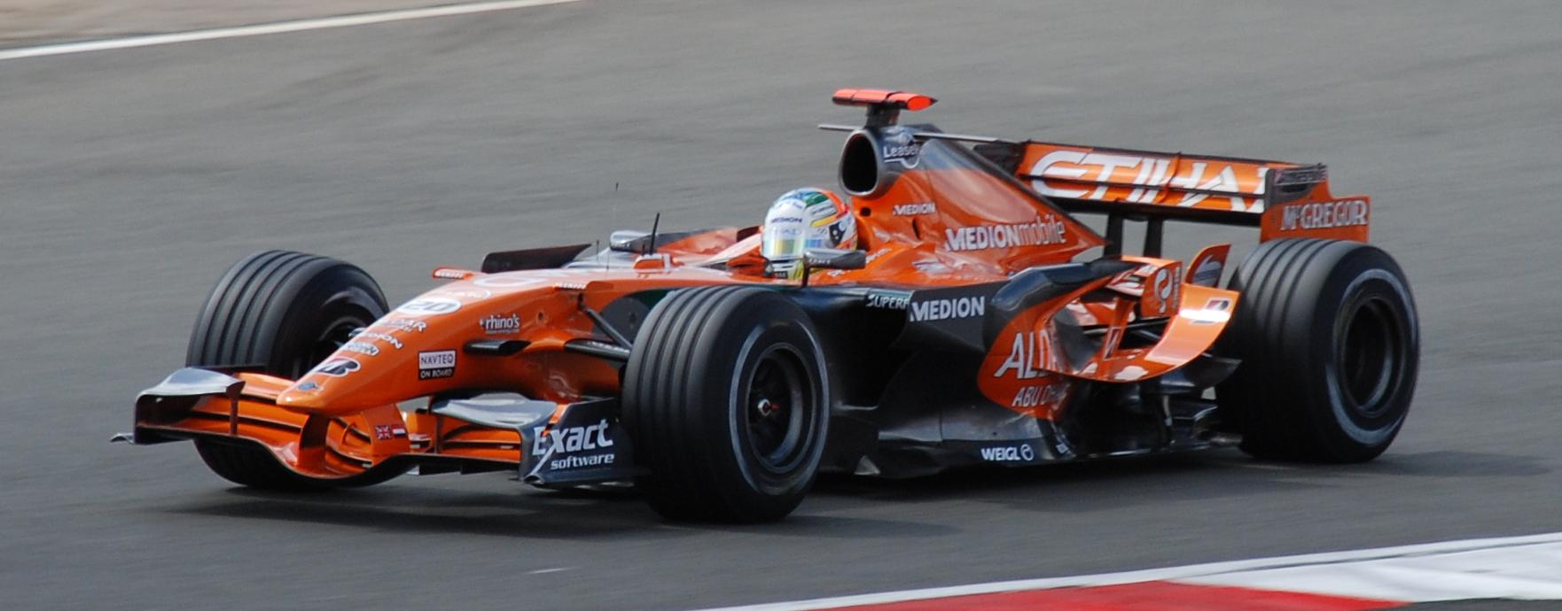 Adrian Sutil driving for Spyker F1 at the 2007 British Grand Prix.